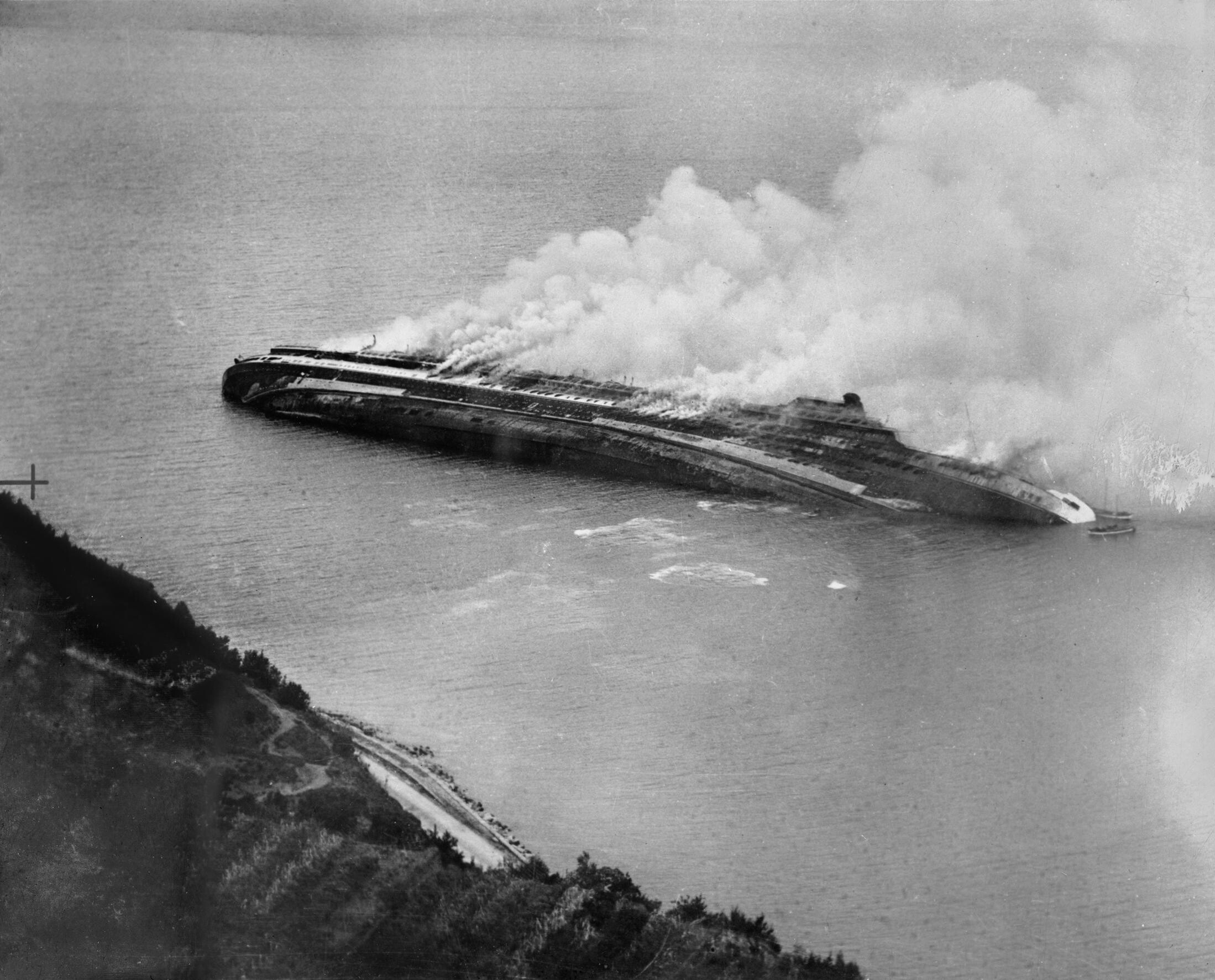 Royal Air Force Operations in Malta, Gibraltar and the Mediterranean, 1940-1945. The Italian liner REX, lying on her side and on fire in Capodistria Bay, south of Trieste, two days after the attack by Bristol Beaufighters of the Mediterranean Allied Coastal Air Force which capsized her.